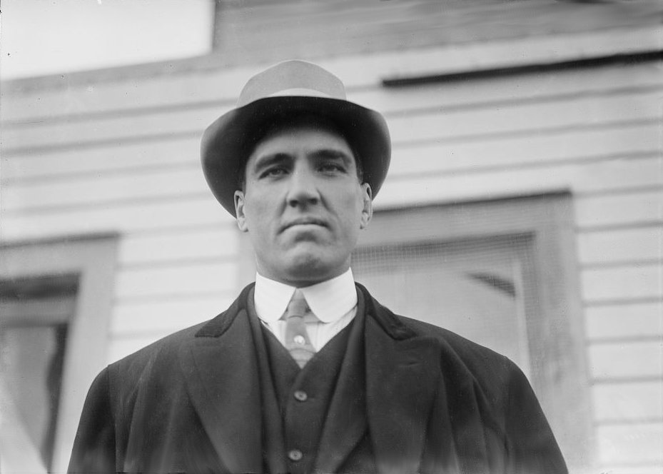 Bain News Service, publisher. Jess Willard [between ca. 1910 and ca. 1915] 1 negative : glass ; 5 x 7 in. or smaller. Notes: Title from unverified data provided by the Bain News Service on the negatives or caption cards. Forms part of: George Grantham Bain Collection (Library of Congress). Format: Glass negatives. Repository: Library of Congress, Prints and Photographs Division, Washington, D.C. 20540 USA, General information about the Bain Collection is available at Persistent URL